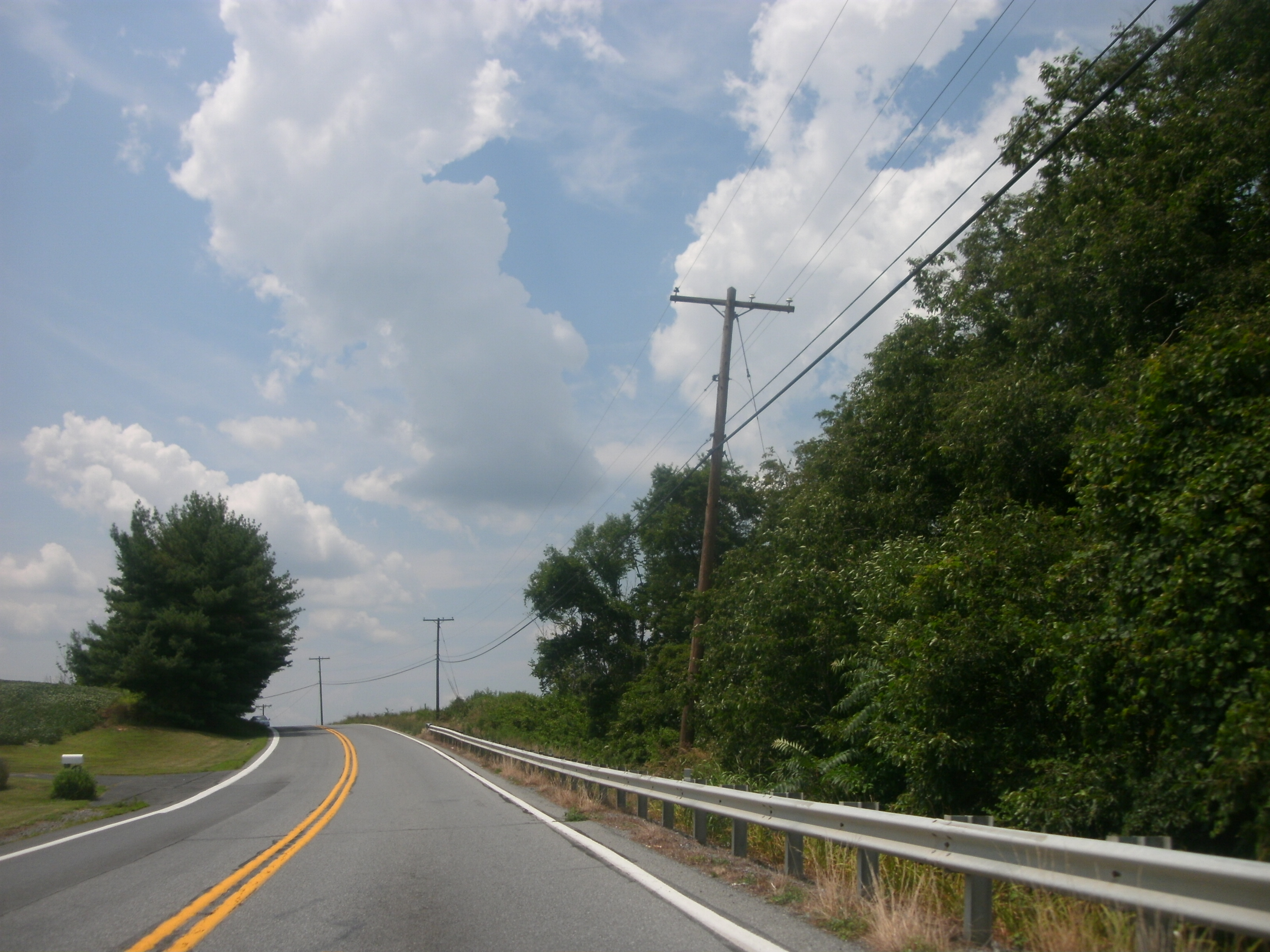 Maryland Route 28 westbound in the town of Tuscarora.